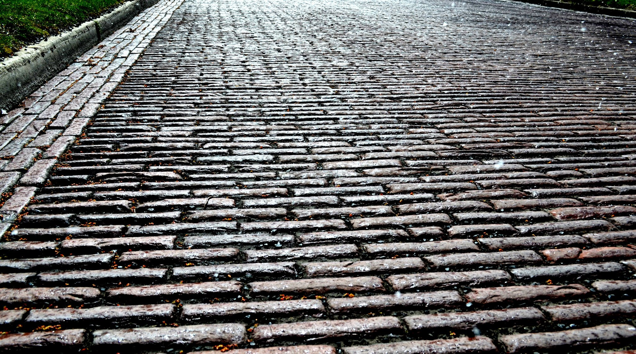 Image courtesy of Sarah Eystad, Washington State University. NE Maple Street (North view)